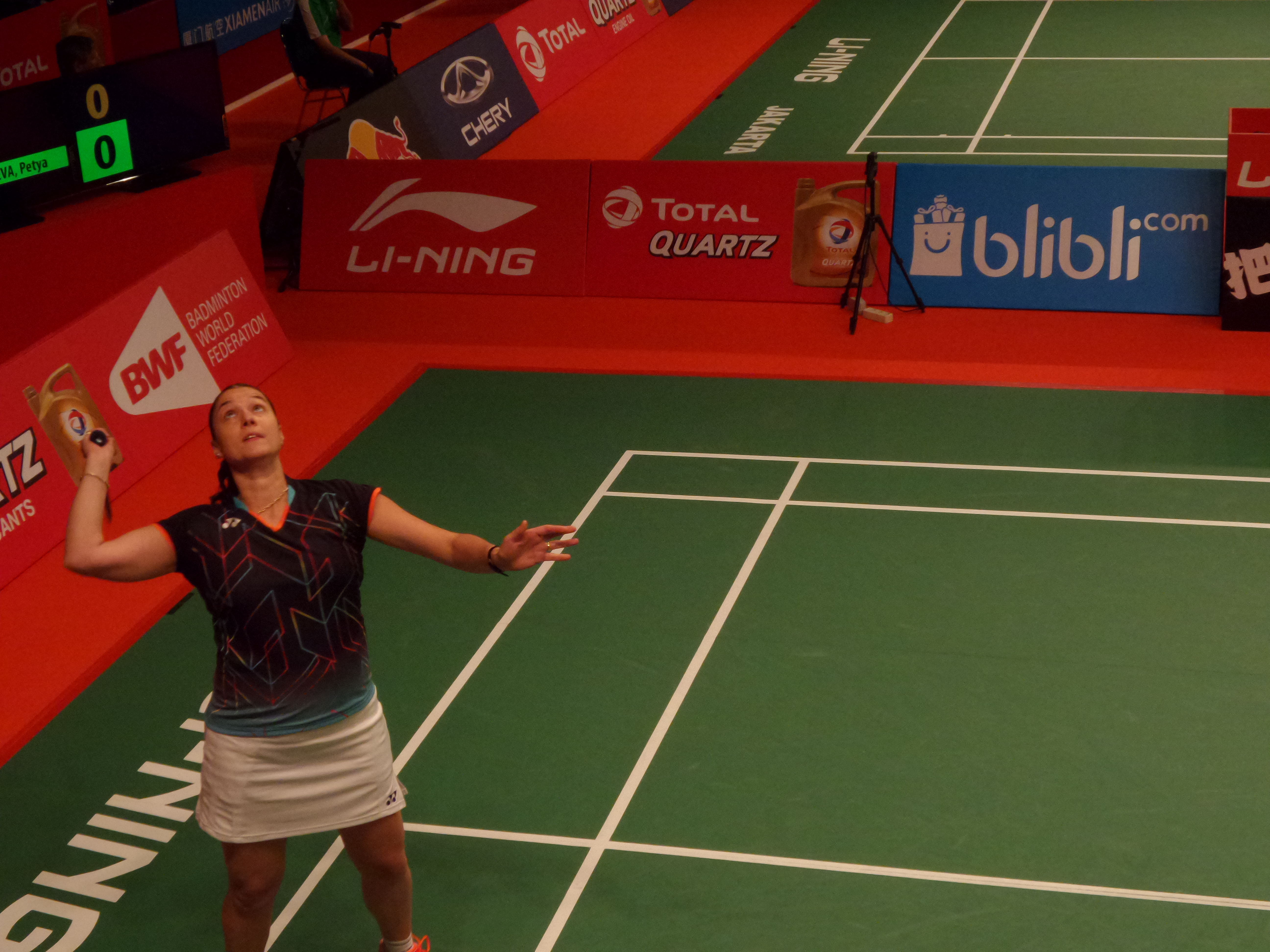 Petya Nedelcheva in action during BWF World Championships Day 2